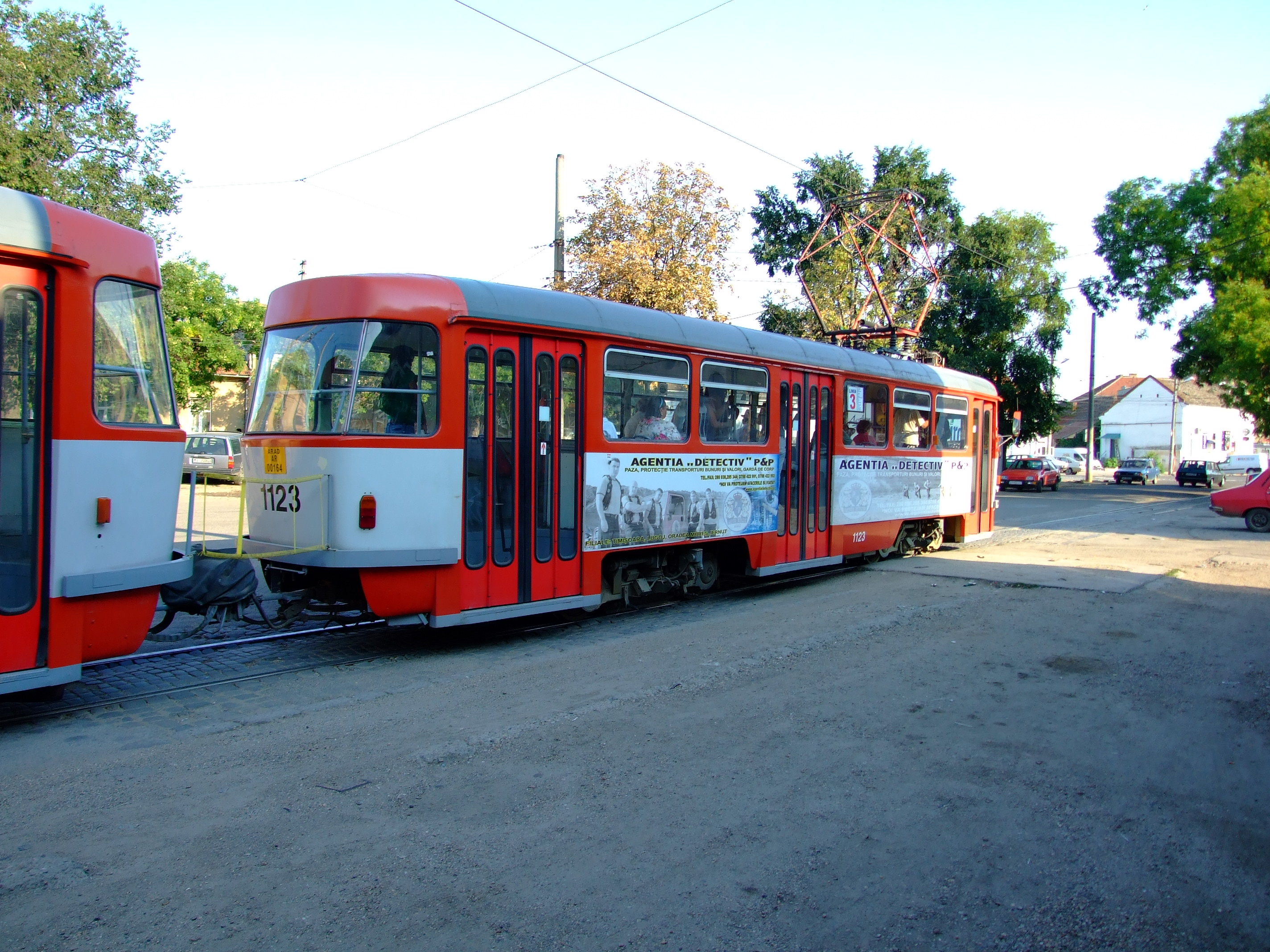 tramway T4D, former Halle, in Arad, Romaniahelp